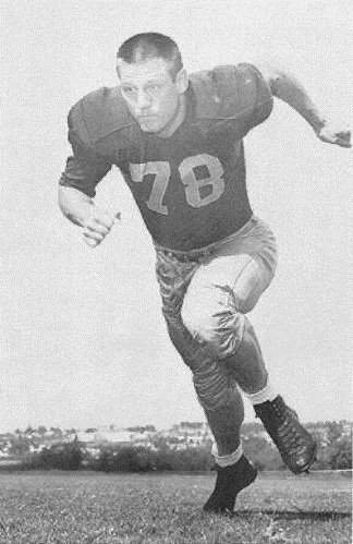 Ben Davidson, University of Washington football player